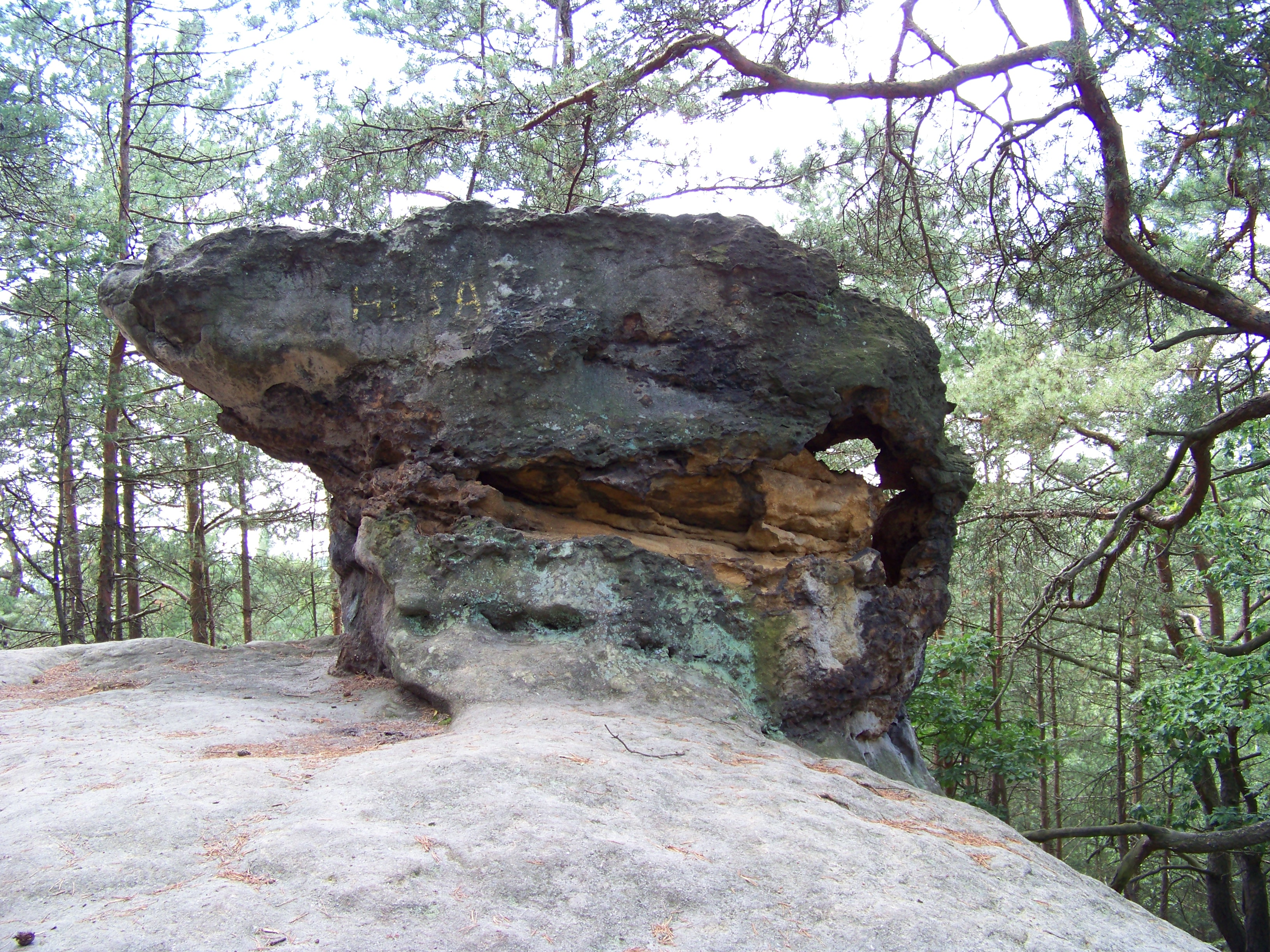 Husa Hill, "Goose" sandstone formation. Protected Landscape Area of Kokořínsko. (Cadastral area of Domašice, Česká Lípa District, Liberec Region, the Czech Republic.) - Google Maps - Google Earth